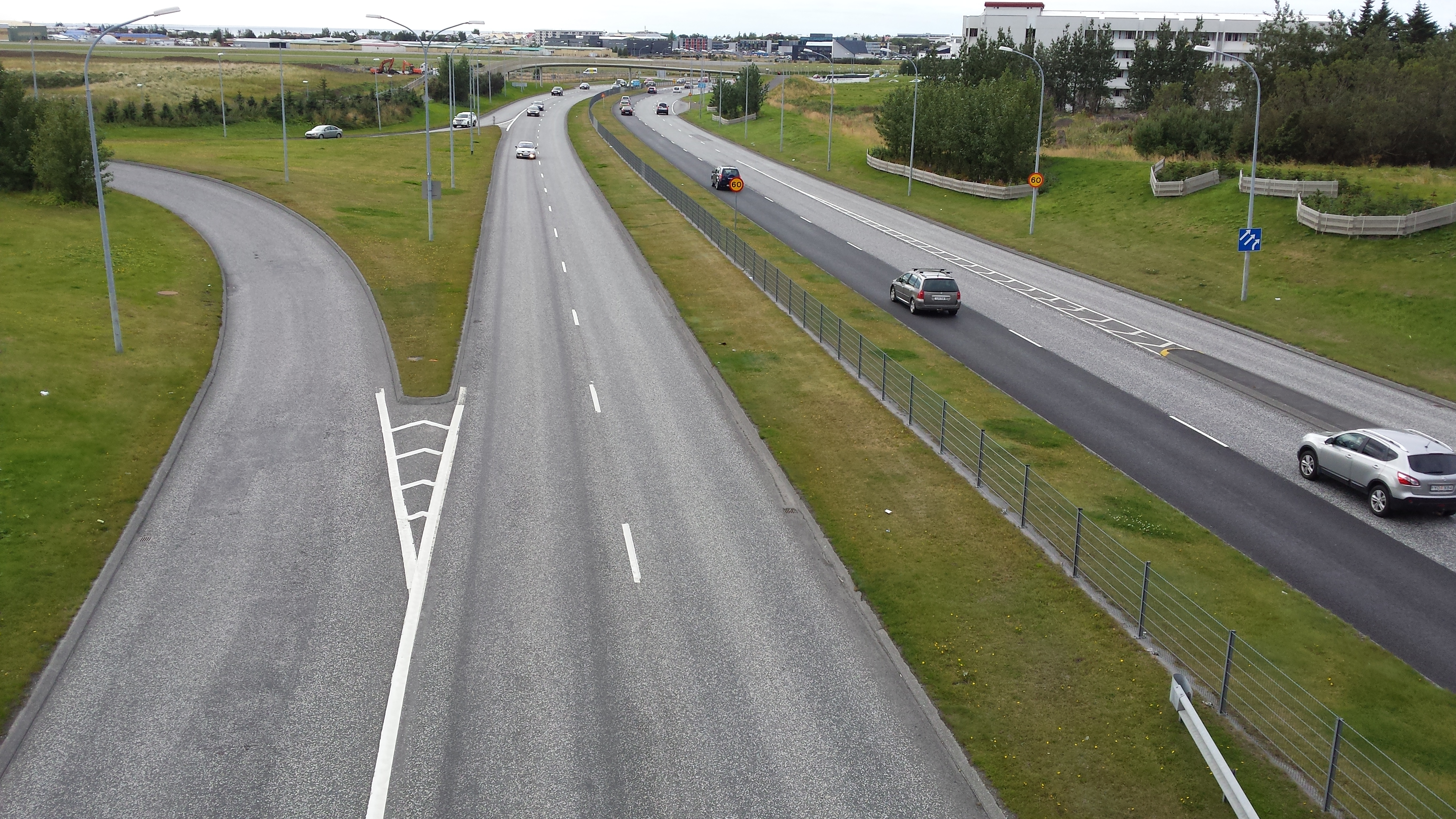 Hringbraut w Reykjavíku